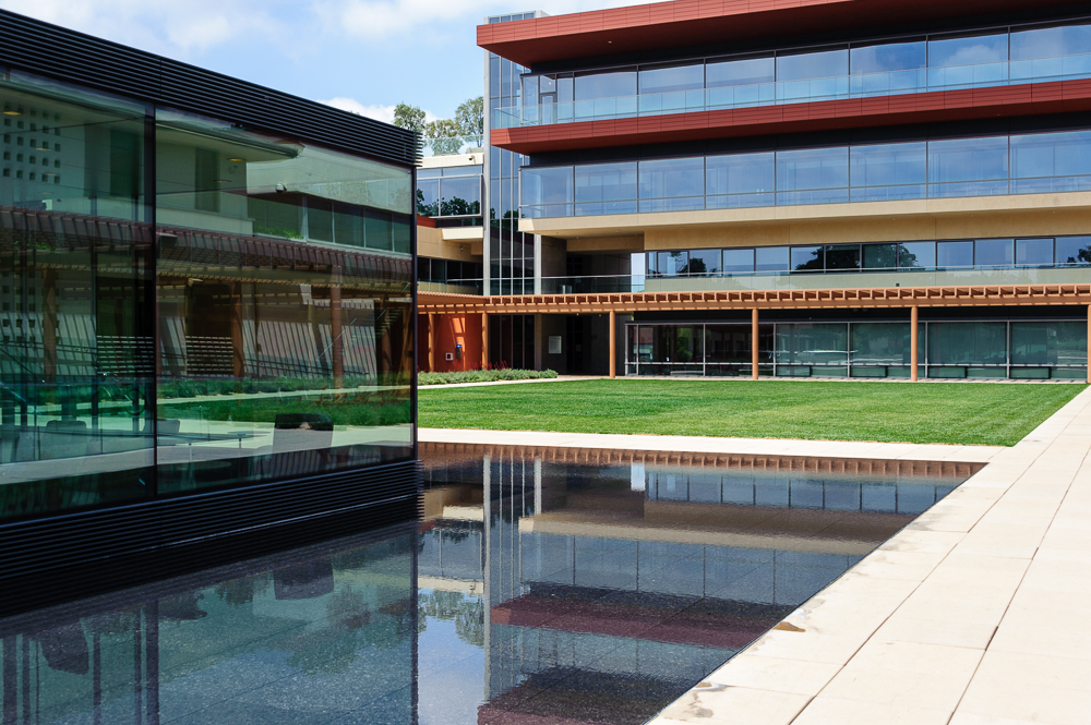 Kravis Center, Claremont McKenna College, 2015